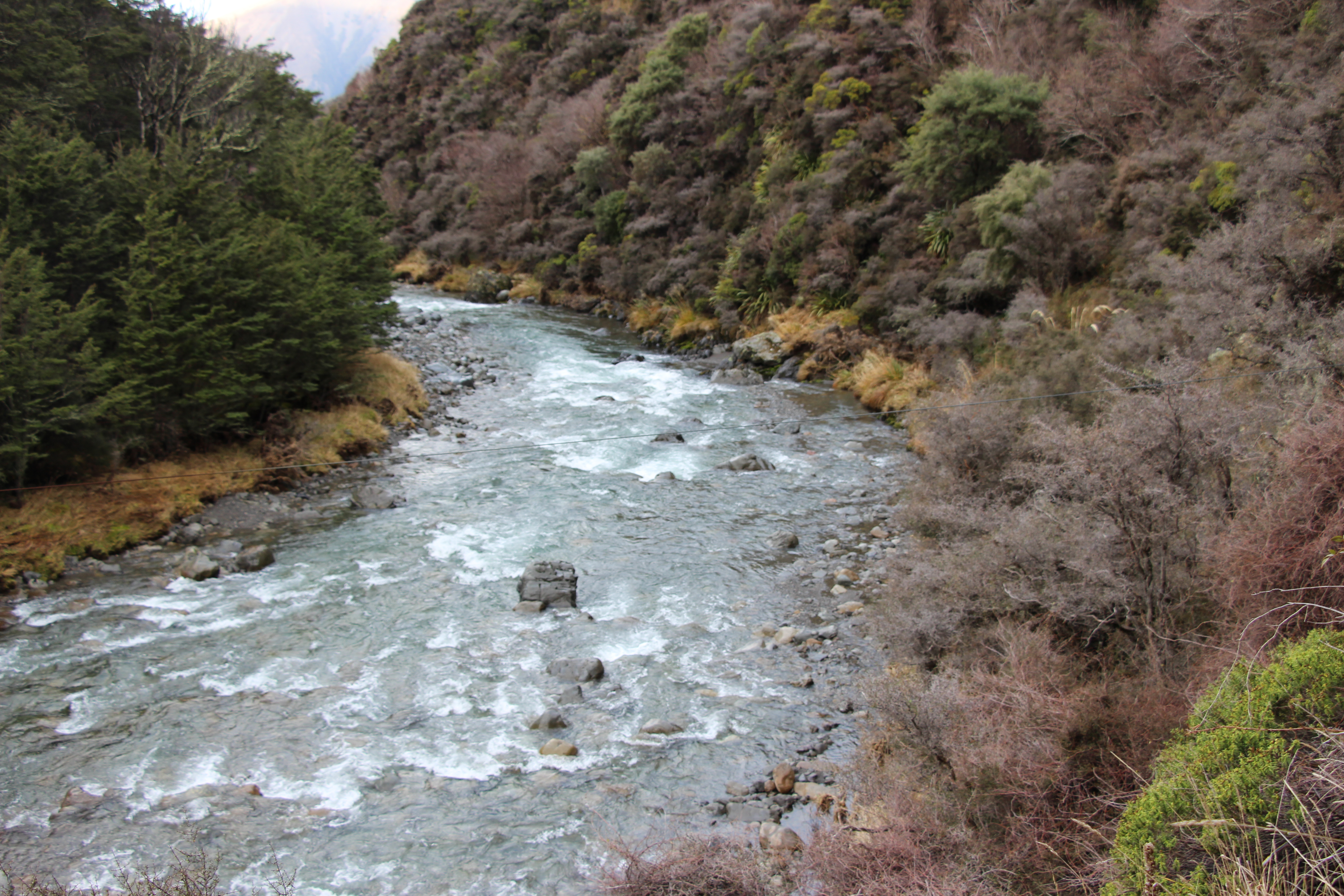 Henry River. St James Walkway, New Zealand